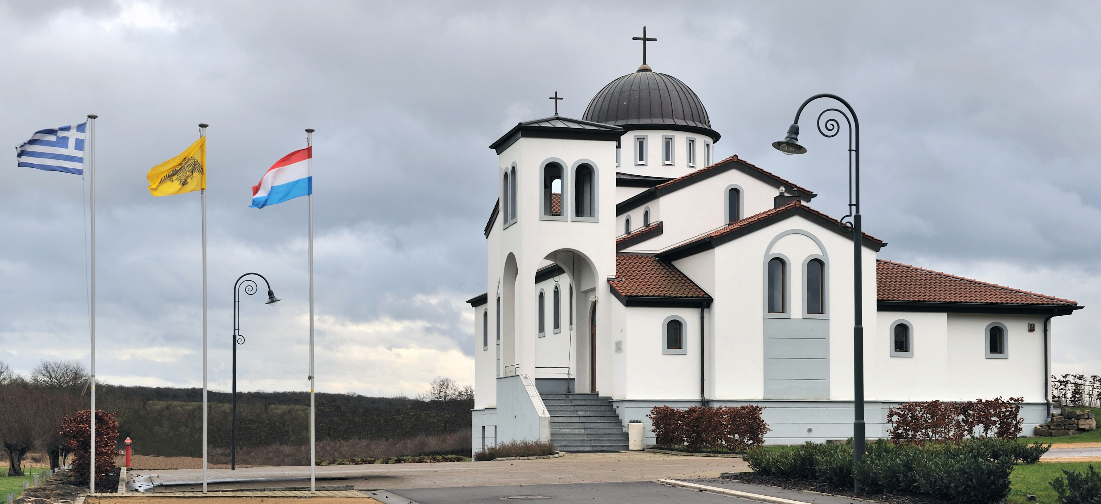 Greek Orthodox Church in Weiler-la-Tour, Luxembourg.